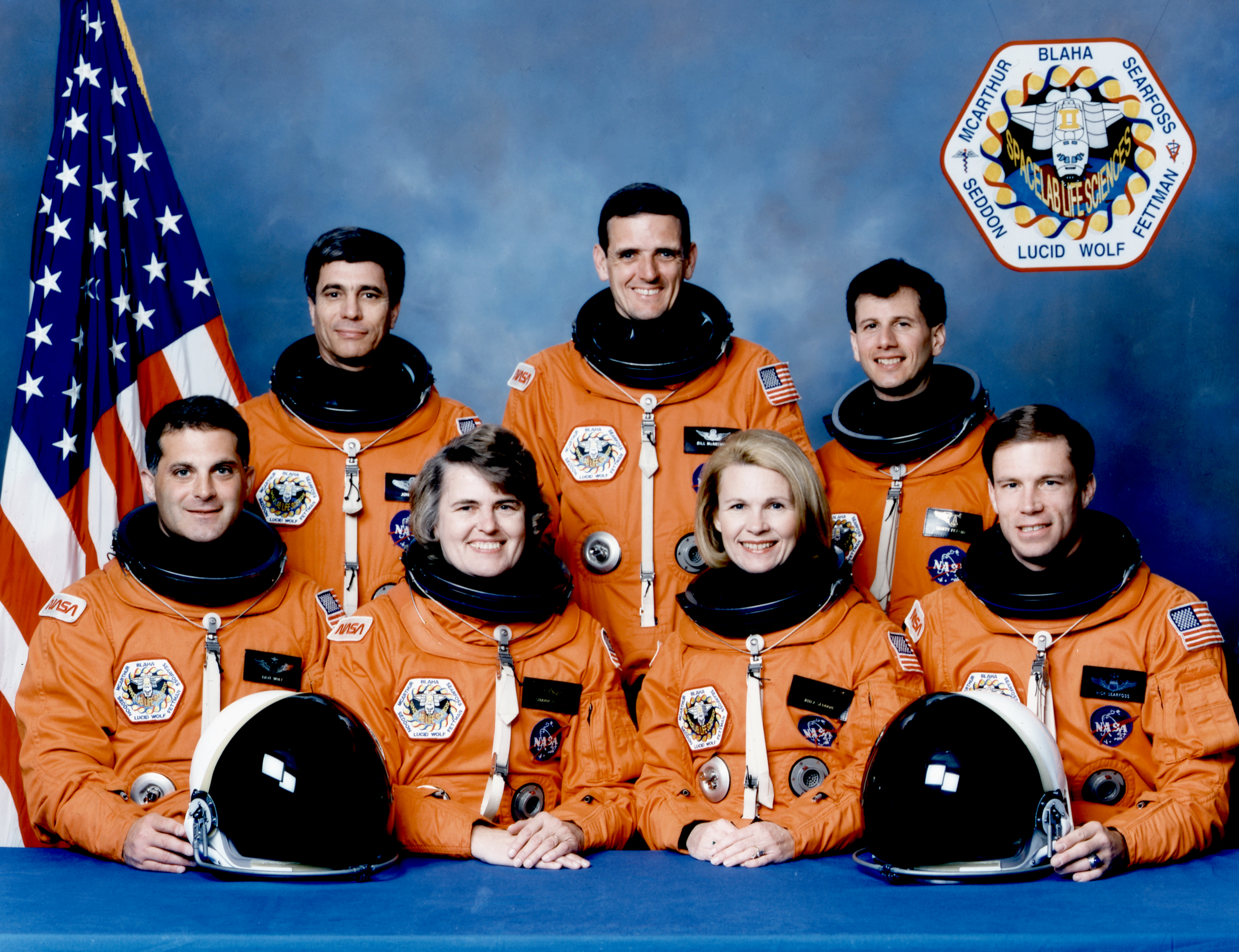 The STS-58 crew portrait includes astronauts (seated left to right) David A. Wolf, Shannon W. Lucid, and Rhea Seddon, all mission specialists; and Richard A. Searfoss, pilot. Standing in the rear, left to right, are John E. Blaha, commander; William S. McArthur, Jr., mission specialist; and Martin J. Fettmen, payload specialist. Launched aboard the Space Shuttle Columbia on October 18, 1993 at 10:53:10 a.m. (EDT), STS-58 served as the second dedicated Spacelab Life Sciences (SLS-2) mission.